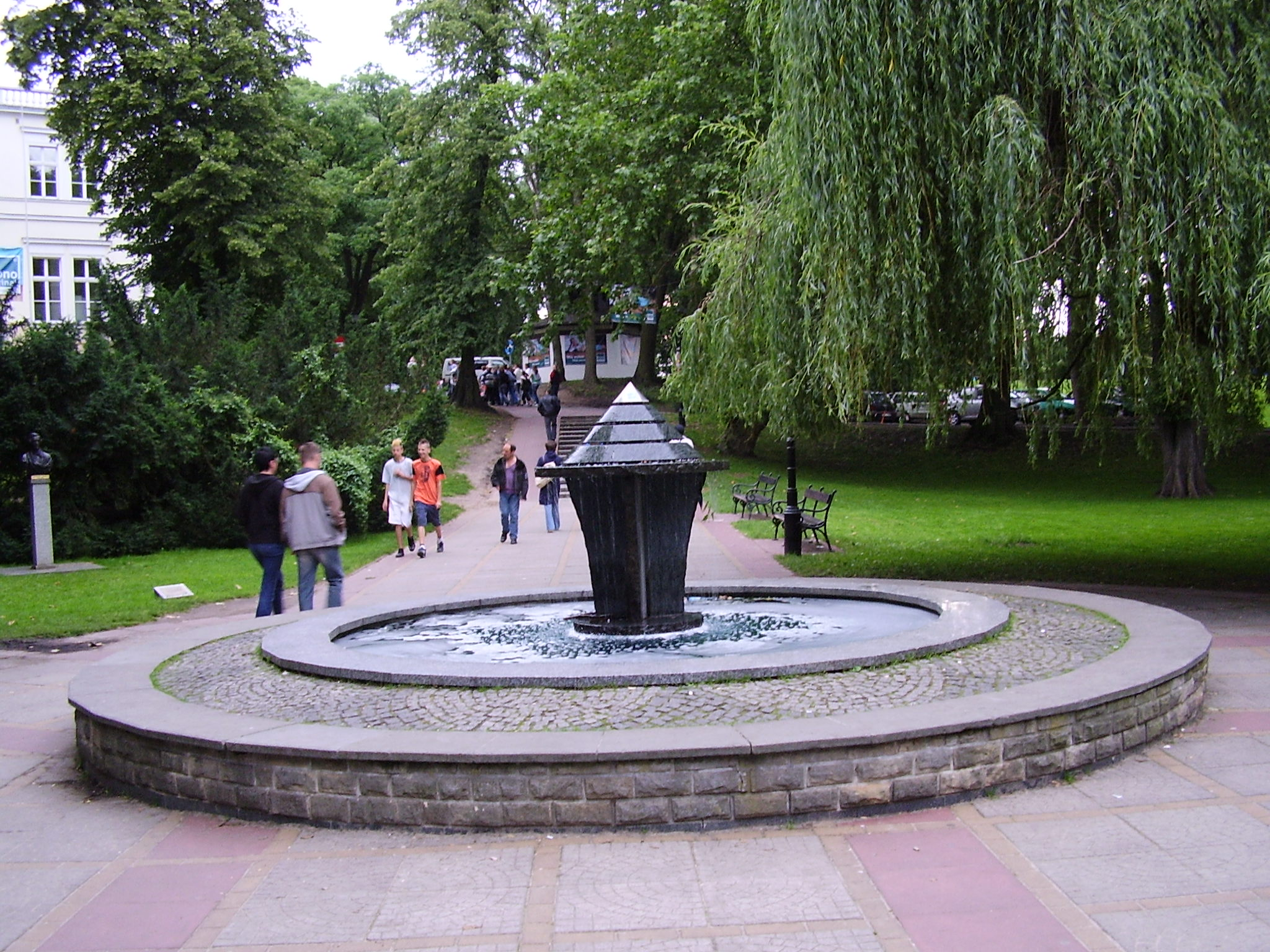 Park Zdrojowy in Międzyzdroje (Poland)